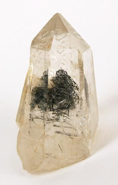 Cosalite, Quartz Locality: Kara-Oba W deposit, Betpakdala Desert (Bet-Pak-Dal Desert), Qaraghandy Oblysy (Karaganda Oblast'), Kazakhstan (Locality at ) Size: 4.0 x 2.1 x 2.1 cm. A rich nest of cosalite needles is visible within a stocky, water-clear quartz crystal in this fine specimen from the Kara-Oba deposit of Kazakhstan. Cosalite is an uncommon lead, bismuth sulfosalt and this is a superb and very uncommon combination of the two species. A fine, 2.0 cm, doubly terminated quartz crystal is embedded in one side. The quartz crystal is complete-all-around and nearly pristine.